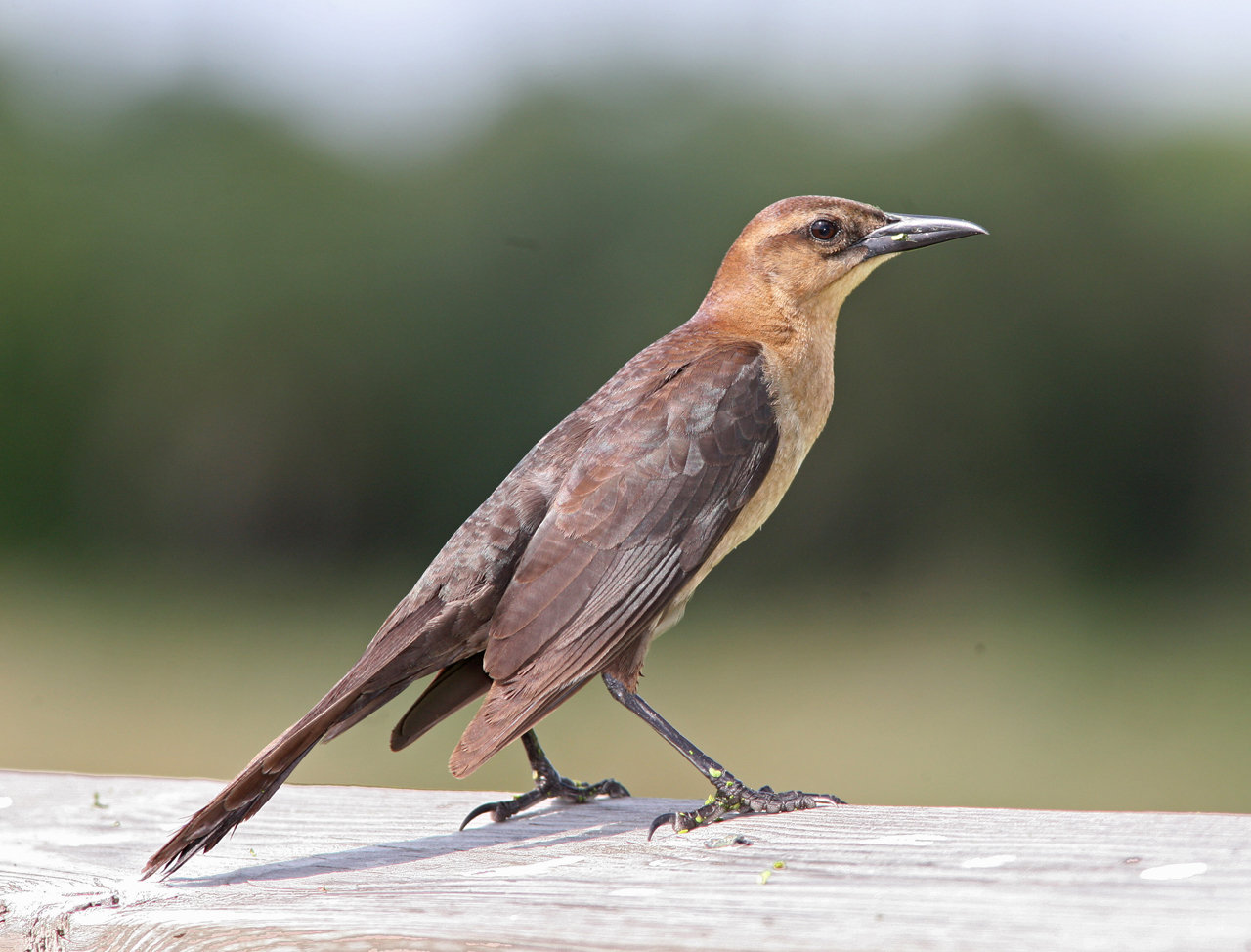 Female Boat-tailed Grackle Quiscalus major in southeast Florida.